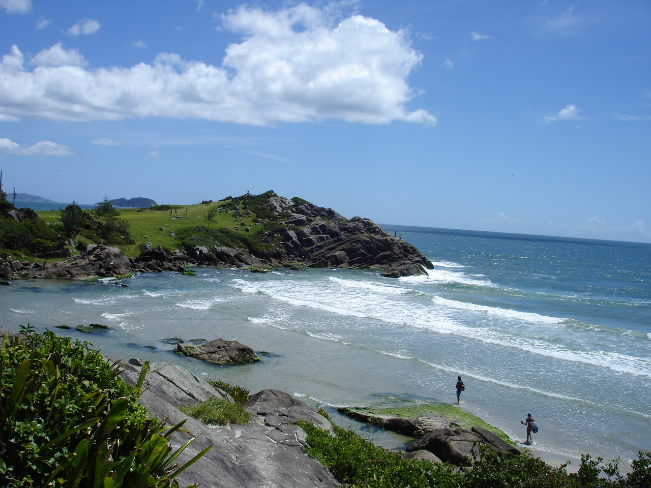 Florianópolis city, Santa Catarina state, Brazil. Praia de Matadeiro, ao sul da ilha de Santa Catarina